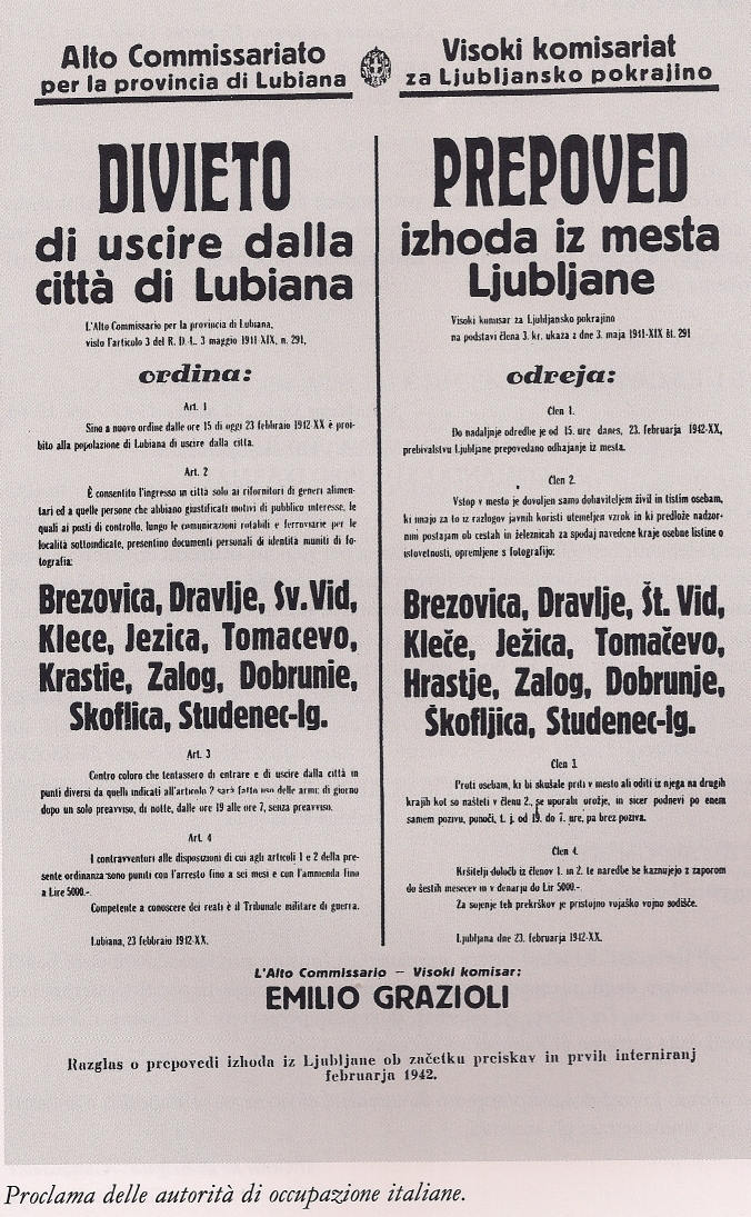 Exiting Ljubljana is forbidden by the 1942 Fascist Italian occupation authorities of Province of Ljubljana, Slovenia